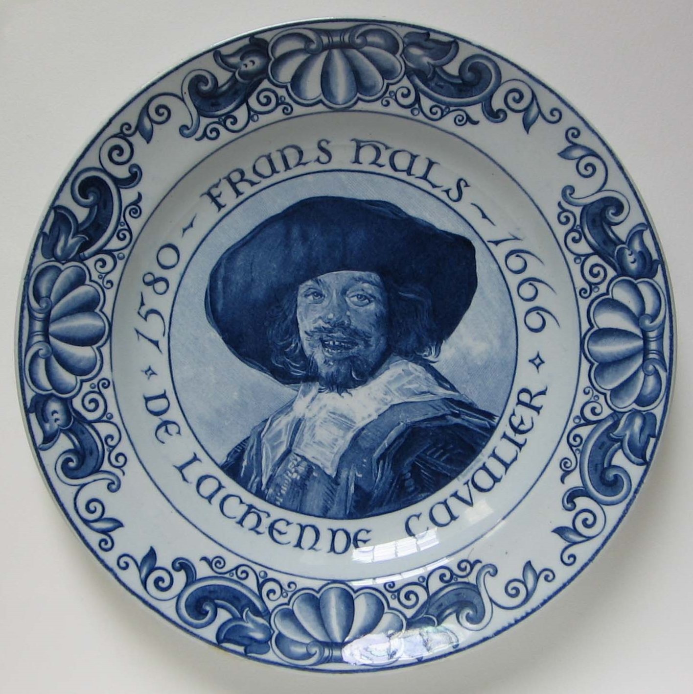 Decorative plate by De Sphinx (Petrus Regout), Maastricht, from a painting by Frans Hals, which turned out to be a forgery.